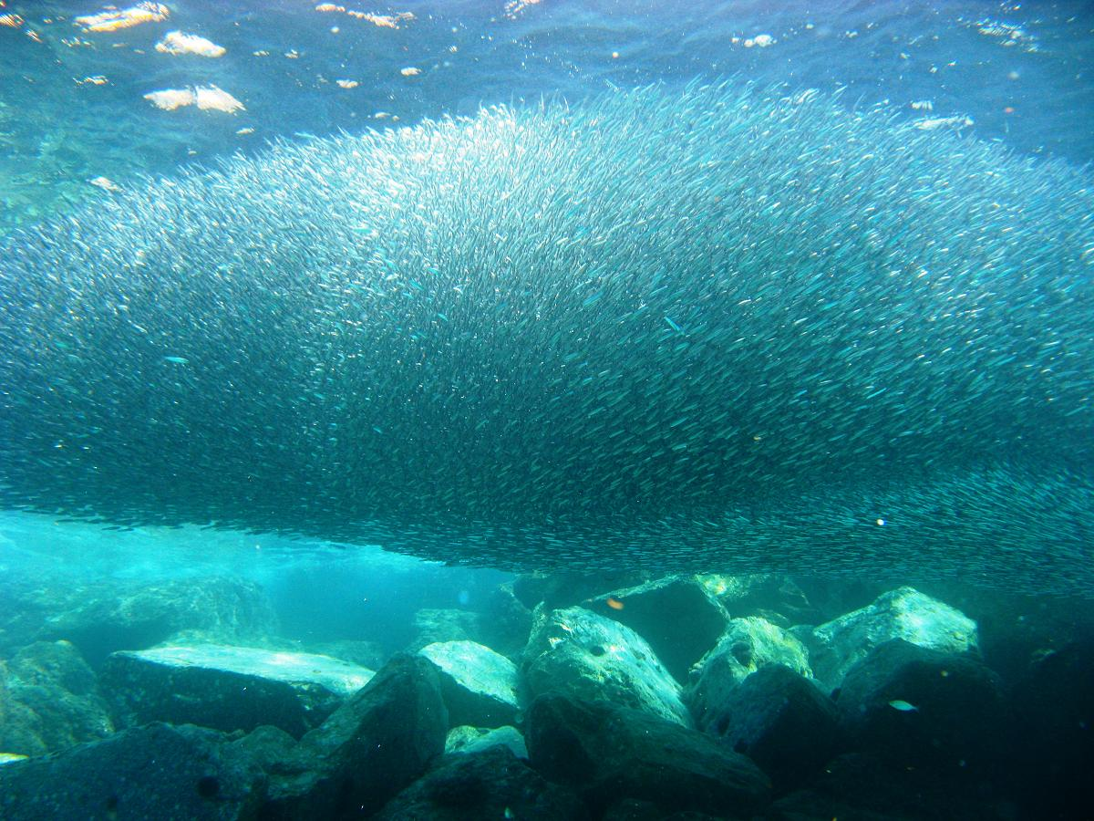 Large Engraulis encrasicolus school photographed in Ligura, Italy